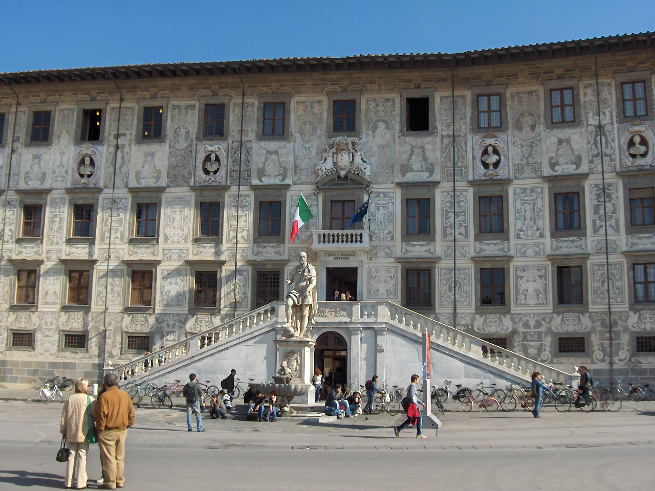 Palazzo dei Cavalieri ; Pisa, Italy Own photo - photo taken by Georges Jansoone on 10 October 2005